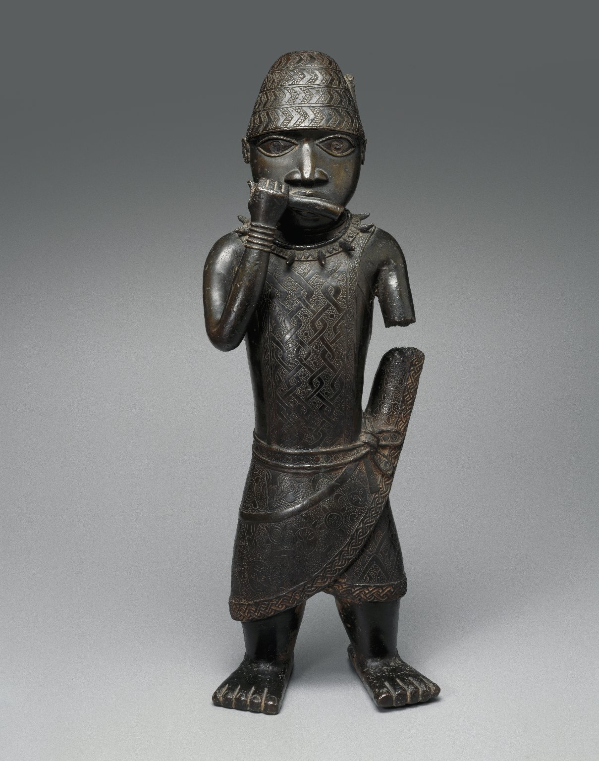 Blowing a horn or flute with his right hand, his left arm is truncated. He wears a netted cap with chevron design decorated with a feather. Around his neck are two collars: one of coral, the other of cowrie shells and teeth. He wears a kind of vest decorated with an interlocking design and supported by a strap around his neck. This is attached at the waist to a skirt which is drawn up at the side in a point. A belt is tied in a knot around the waist, and a lower belt with tassels connecting the skirt at the back. The over-skirt has a pattern of human faces, leopard faces, arms, half-moons, and other leaf forms. He wears five bracelets on his right hand. There is an undershirt exposed on the left side which has an interlocking design. The lower border of the outfit has a guilloche pattern. Condition: Generally good although the left arm is truncated just below the shoulder and the horn or flute is broken off at both ends. The tip of the feather on the cap is broken off, too. Judging from the surface which is remarkable in that it is free from corrosion products or patination, it has been kept mostly or entirely in protected places.